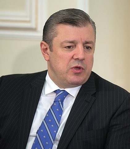 Giorgi Kvirikashvili in meeting with Iranian FM Javad Zarif